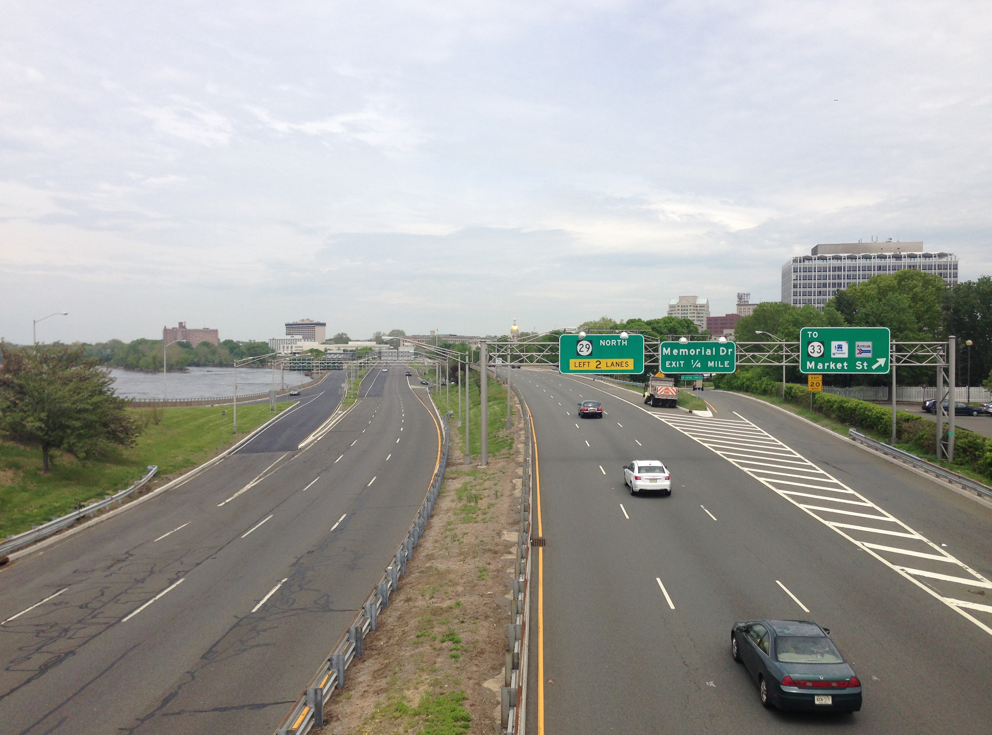 View north along New Jersey State Route 29 (John Fitch Parkway) from the overpass for the ramp from New Jersey Route 29 southbound to U.S. Route 1 southbound in Trenton City, Mercer County, New Jersey